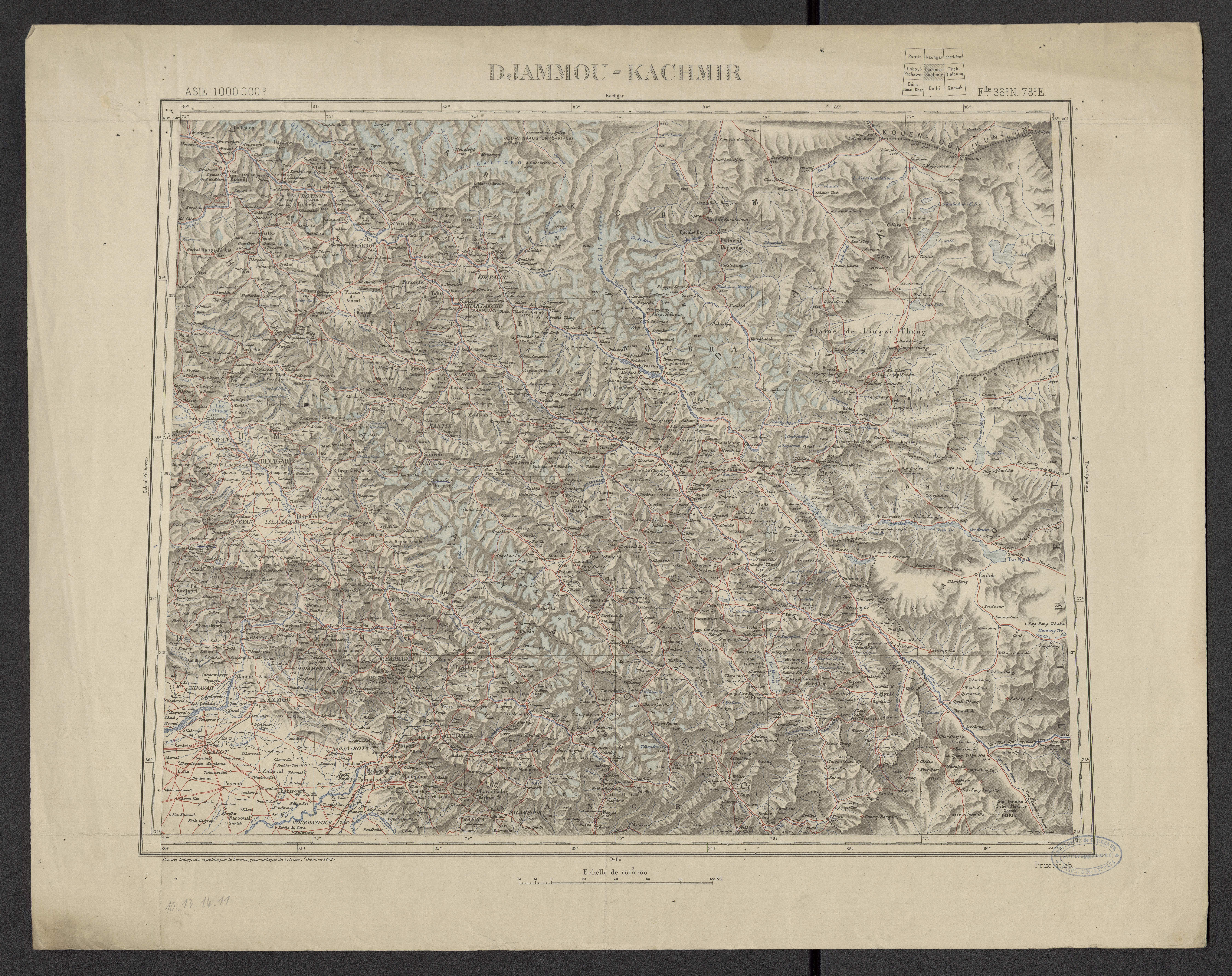 Map of Kashmir in 1913